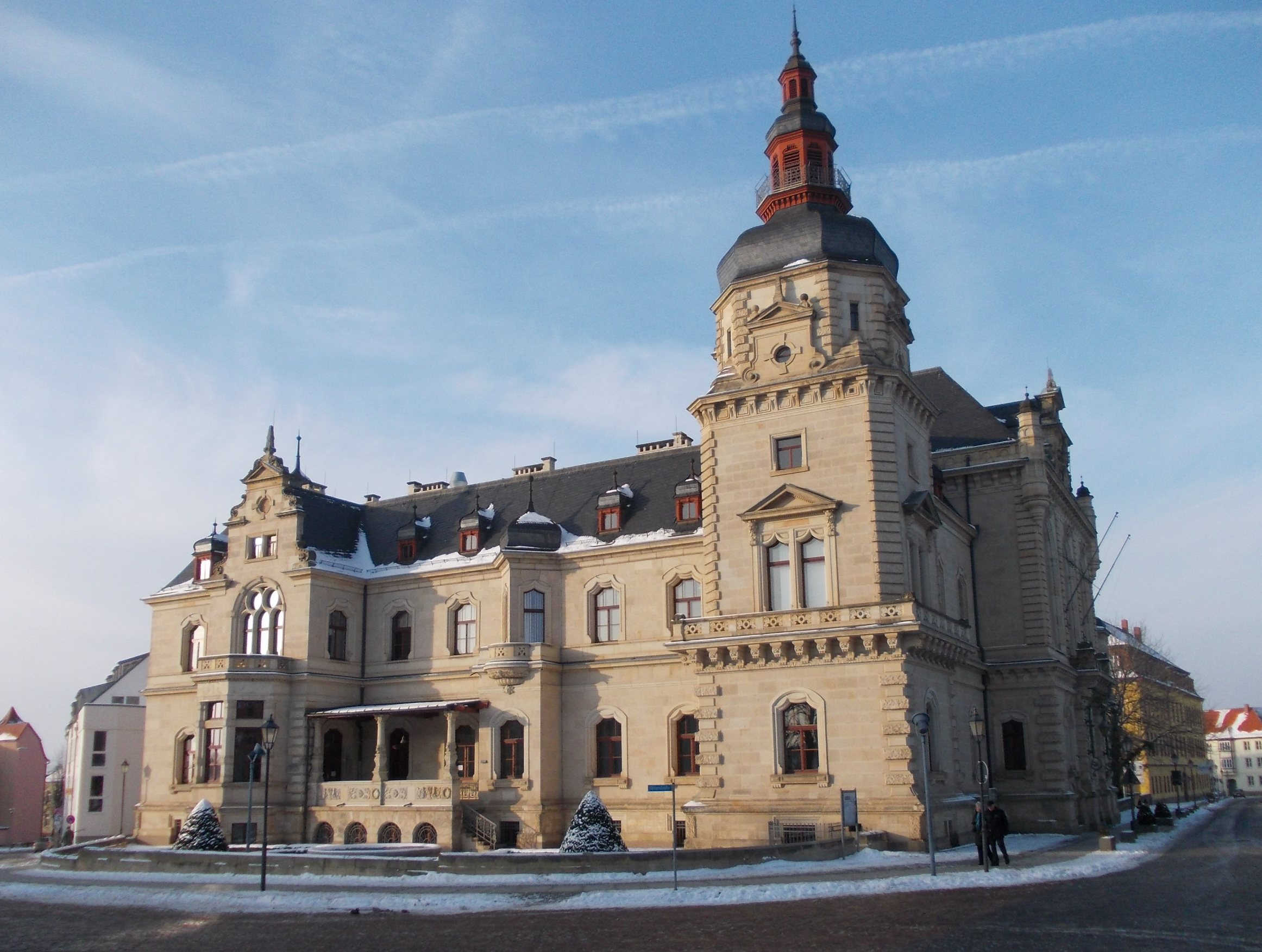 Ständehaus in Merseburg (district of Saalekreis, Saxony-Anhalt)